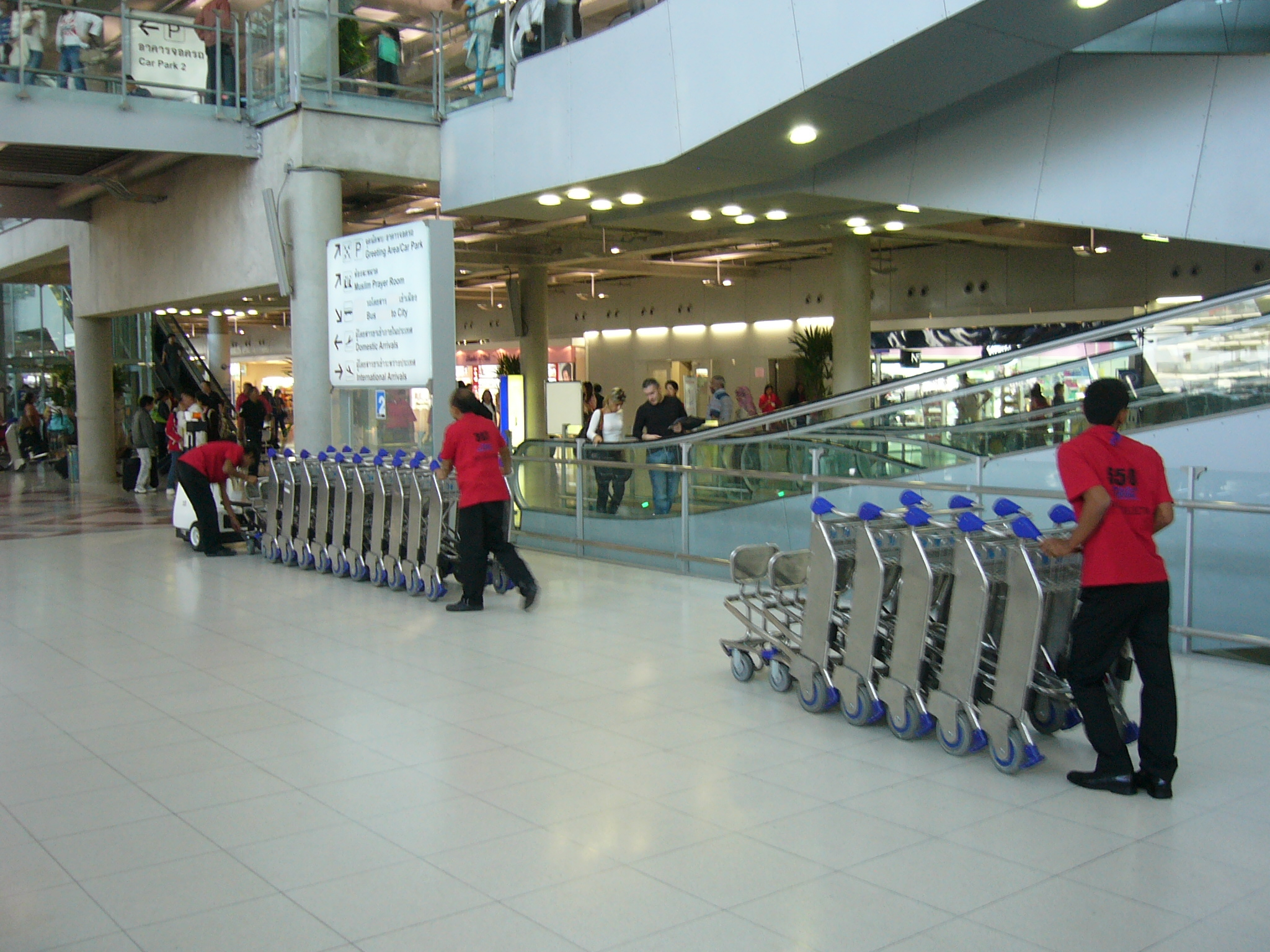 Collection of baggage carts at Suvarnabhumi International Airport near Bangkok, Thailand.